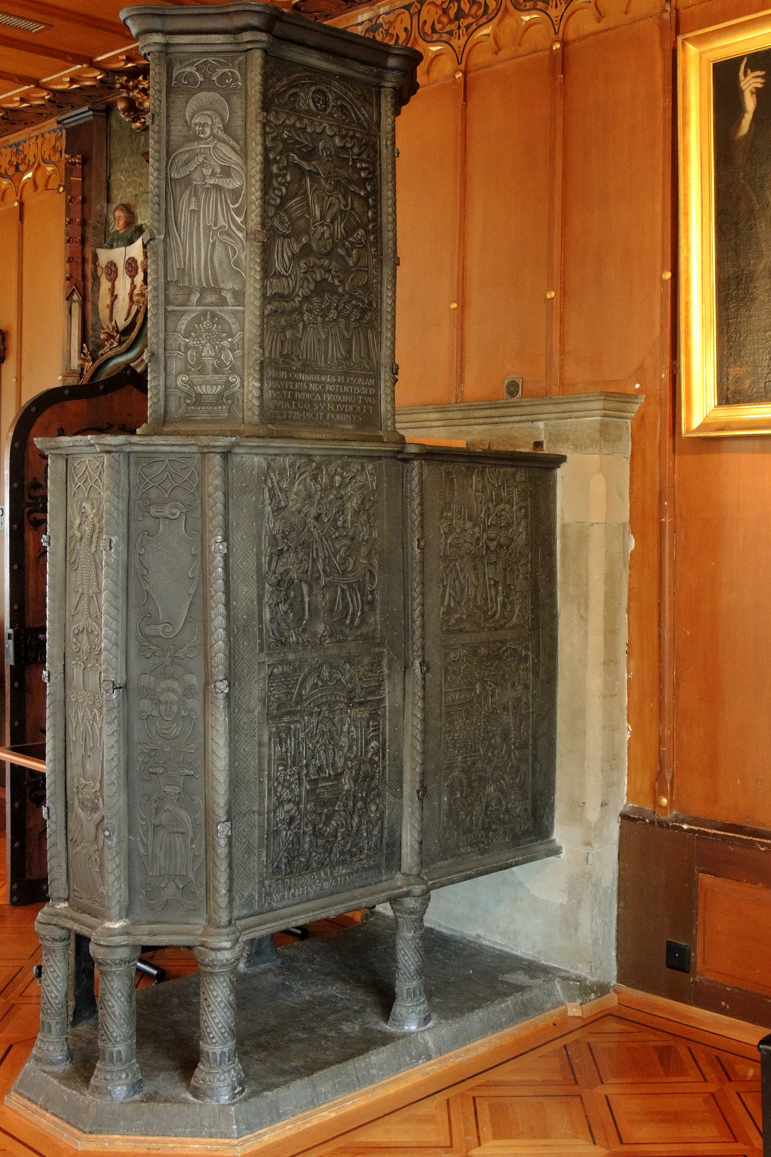 Rapperswil (Switzerland) : Rathaus at Hauptplatz.